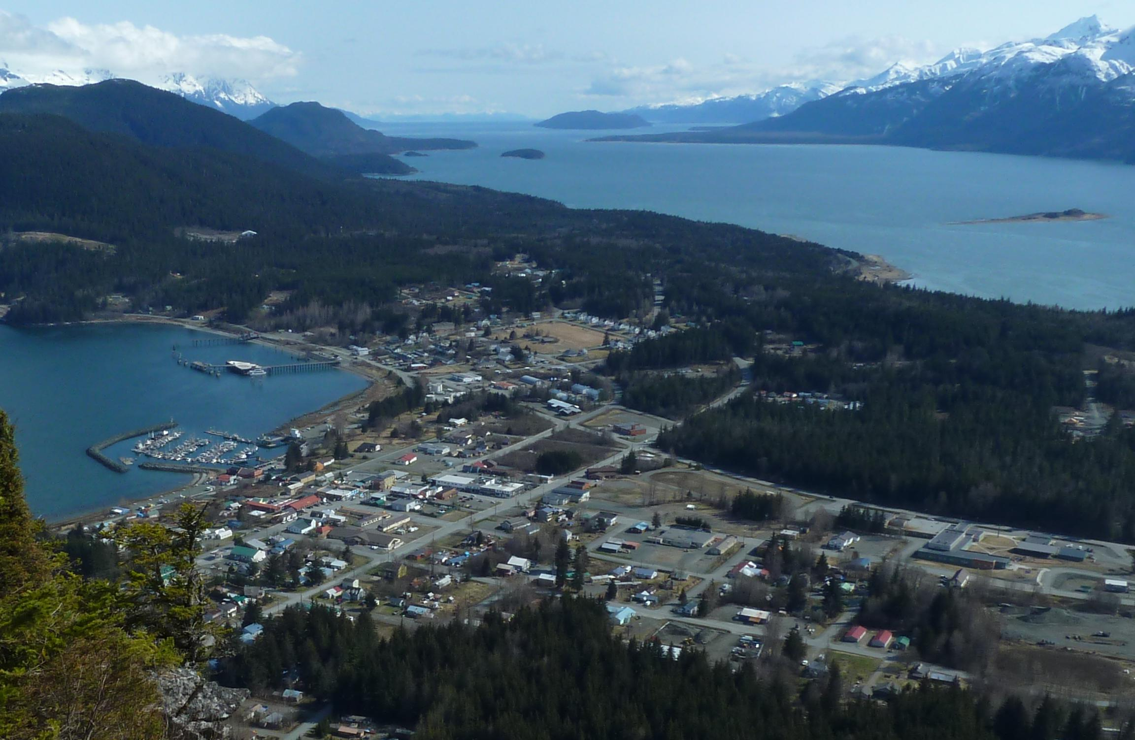 Haines, viewed from the slopes of Mt. Ripinski, showing Chilkoot Inlet on the left, Chilkat Inlet on the right, and the Chilkat Peninsula extending into the distance.